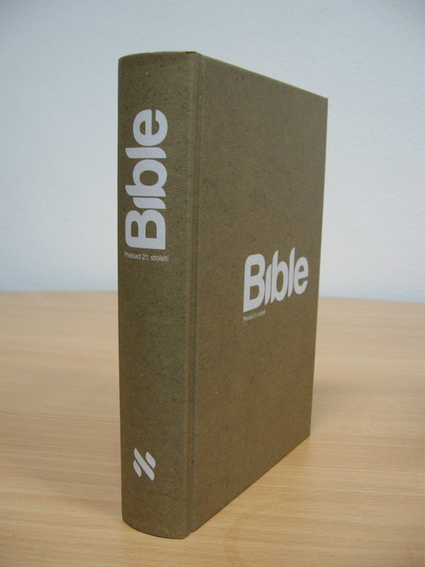 Bible 21